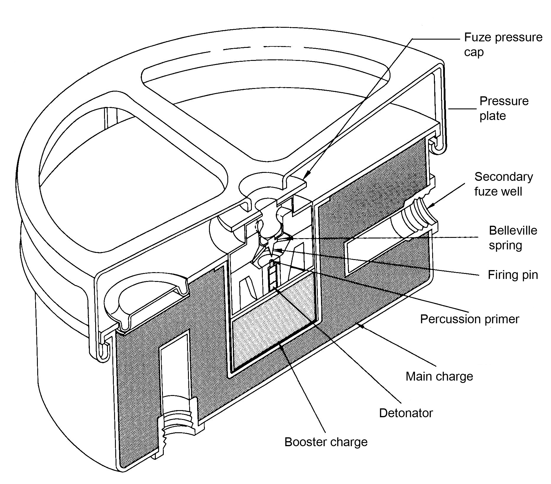 A cutaway of a US M1, M4 anti-tank mine dating from circa 1945, showing 2 additional fuze wells designed for use with booby-trap firing devices.